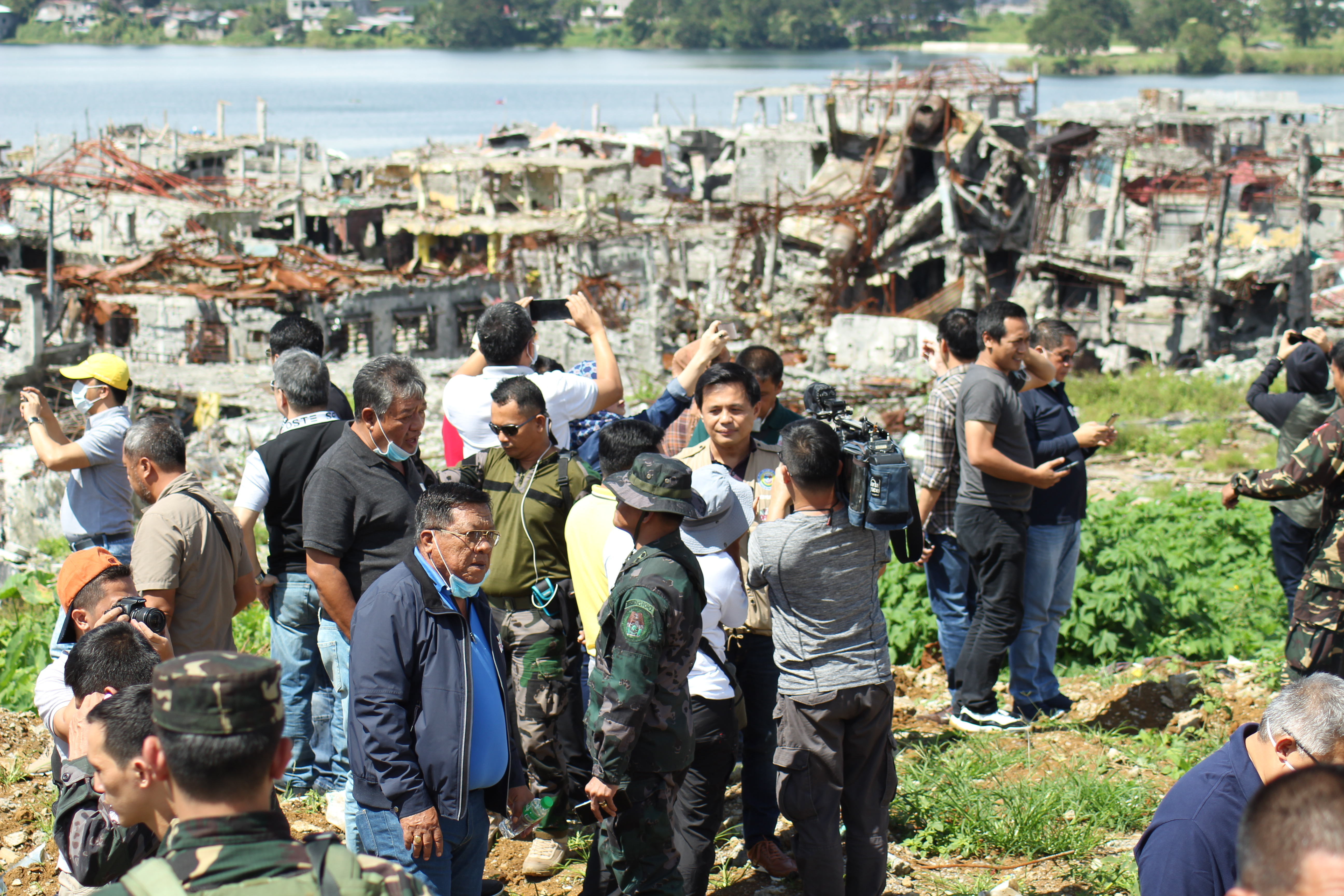 Local officials of Lanao del Sur province visits the Ground Zero (also known as the Main Battle Area) in Marawi for the first time since the end of the Battle of Marawi.